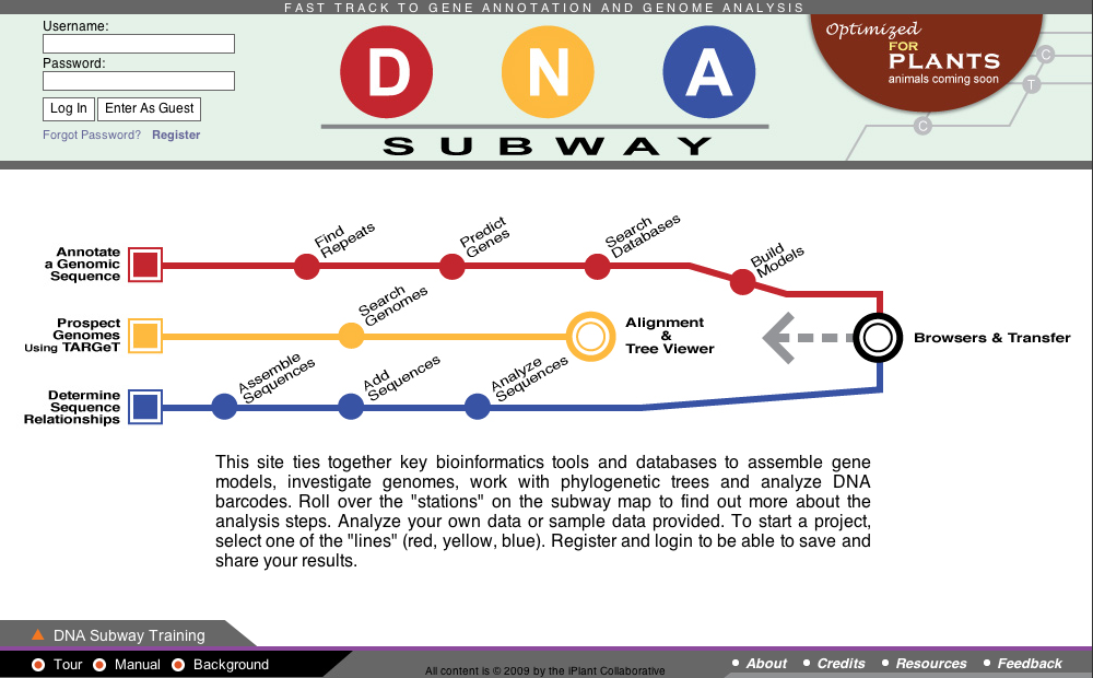 The DNA Subway web site was developed with a grant from the US National Science Foundation. With the catchphrase "Fast Track to Gene Annotation and Genome Analysis", it high-level DNA analysis available to faculty and students by simplifying annotation and comparative genomics workflows.